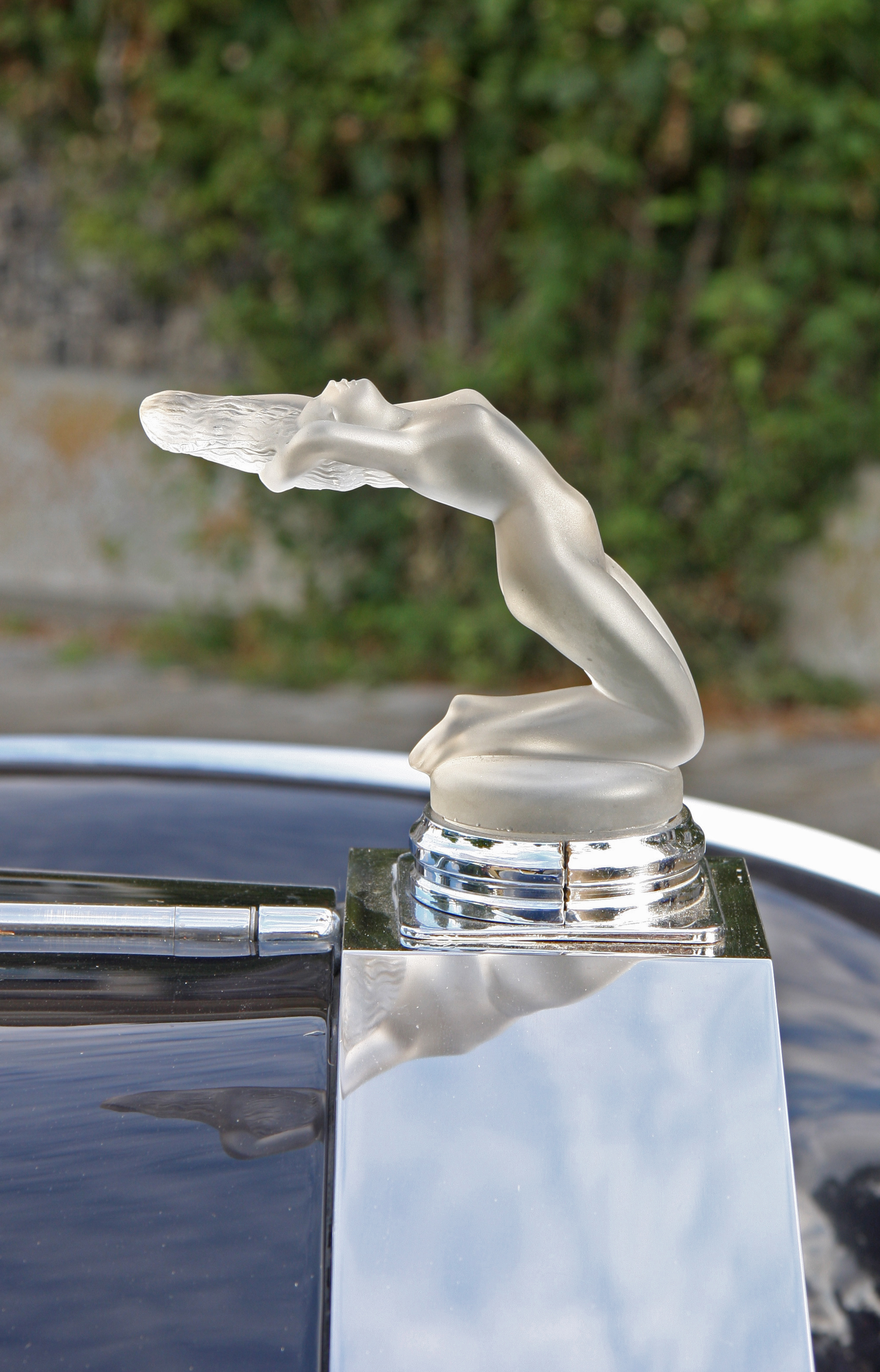 "Chrysis", opalescent glass mascot by René Lalique, mounted on the radiator of a 1956 Rolls-Royce Silver Wraith